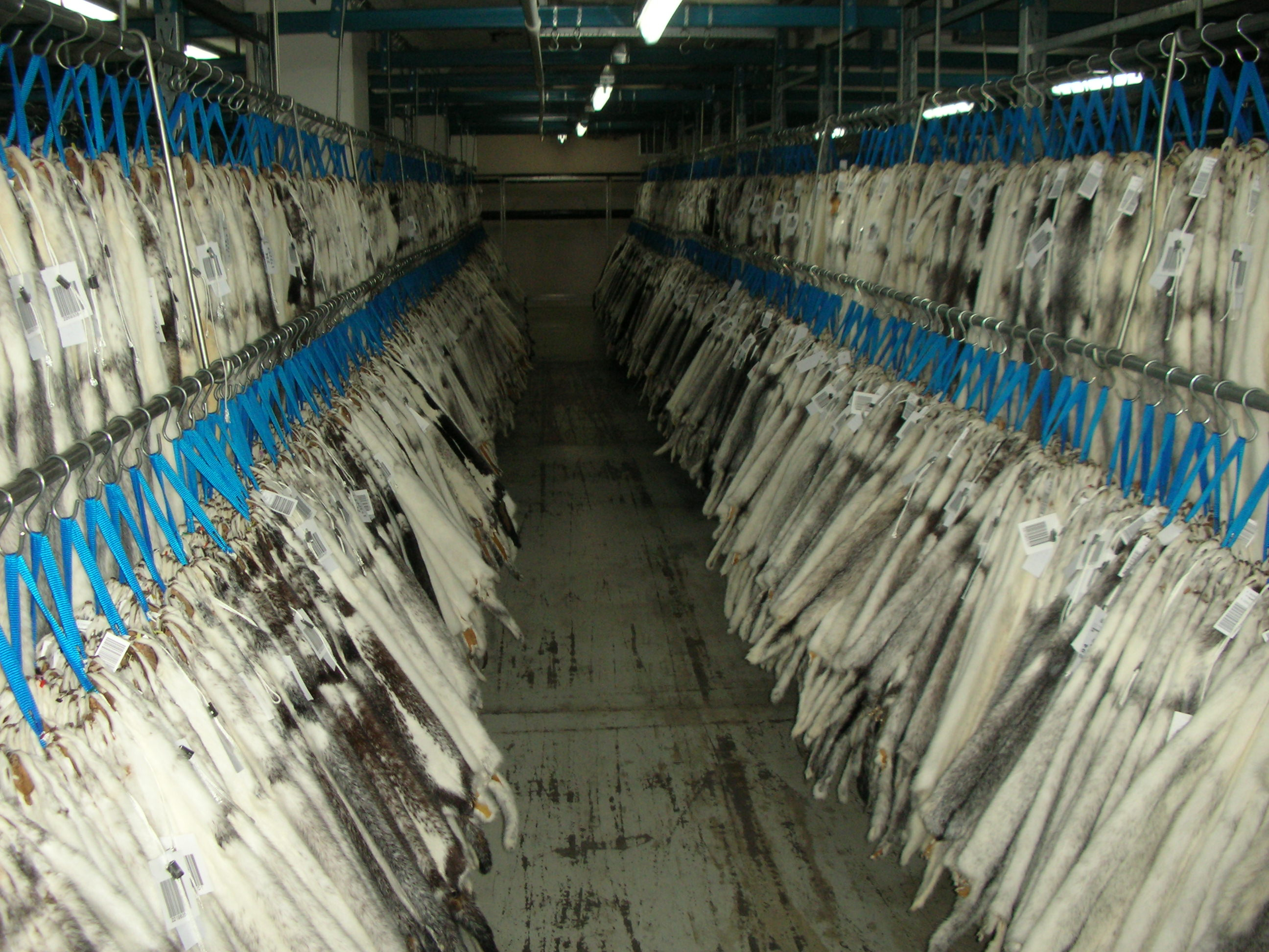 Black cross mink pelts in the warehouse of the auction house Kopenhagen Fur.